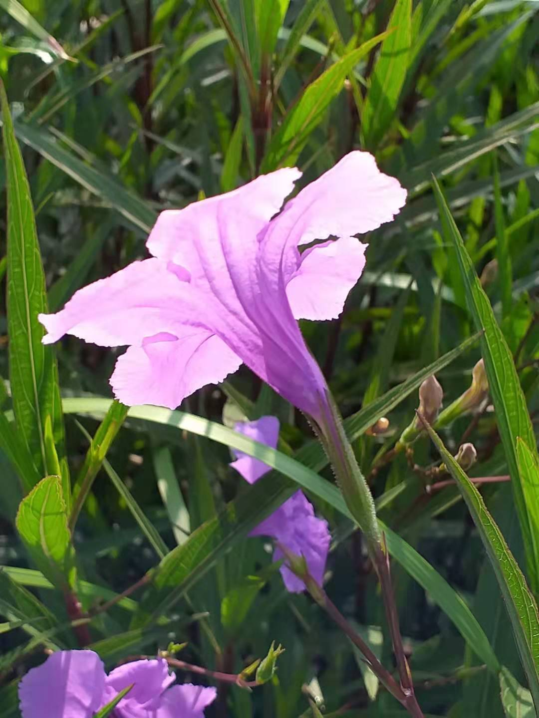 Trumpet shaped flowers. Nautou, Taiwan.